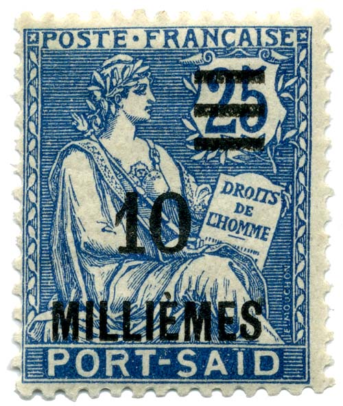 Scan of French post offices in Egypt (Port Said) 10m stamp of 1925